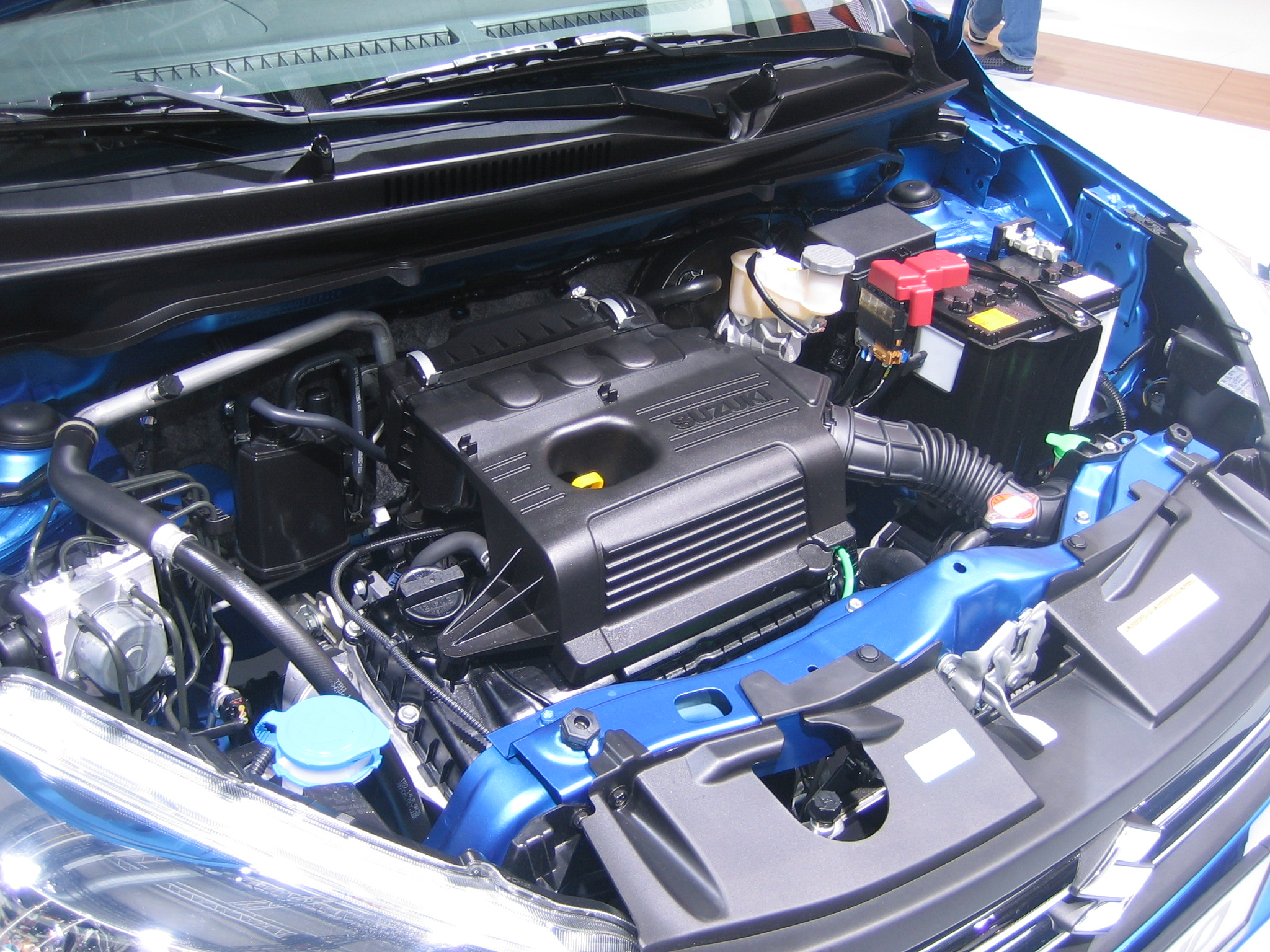 Engine of the Suzuki Celerio, photographed at the Internal Motorshow in Frankfurt / Germany 2015